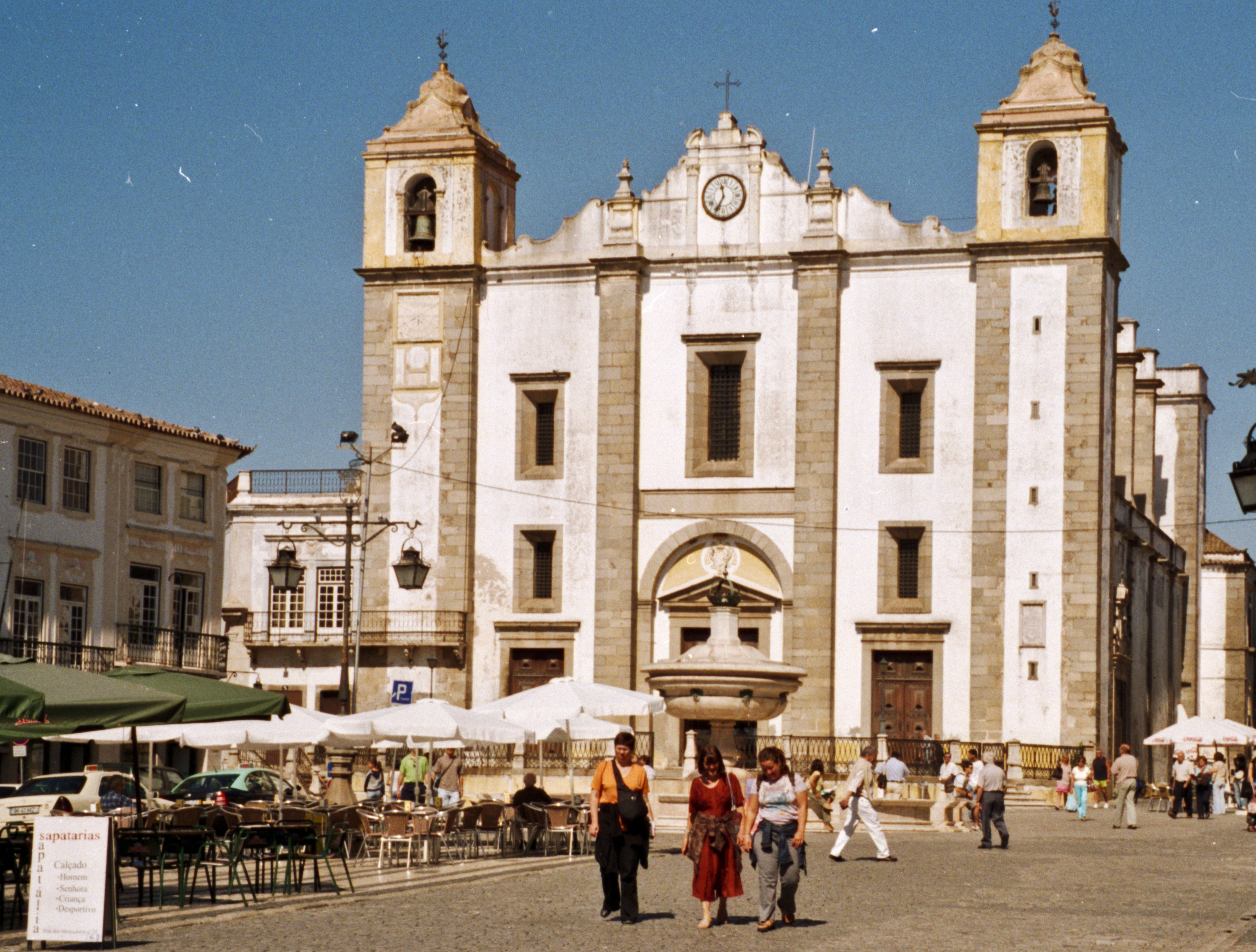 Scanning this item was made possible with the financial support of the Wikimedia Polska Association.